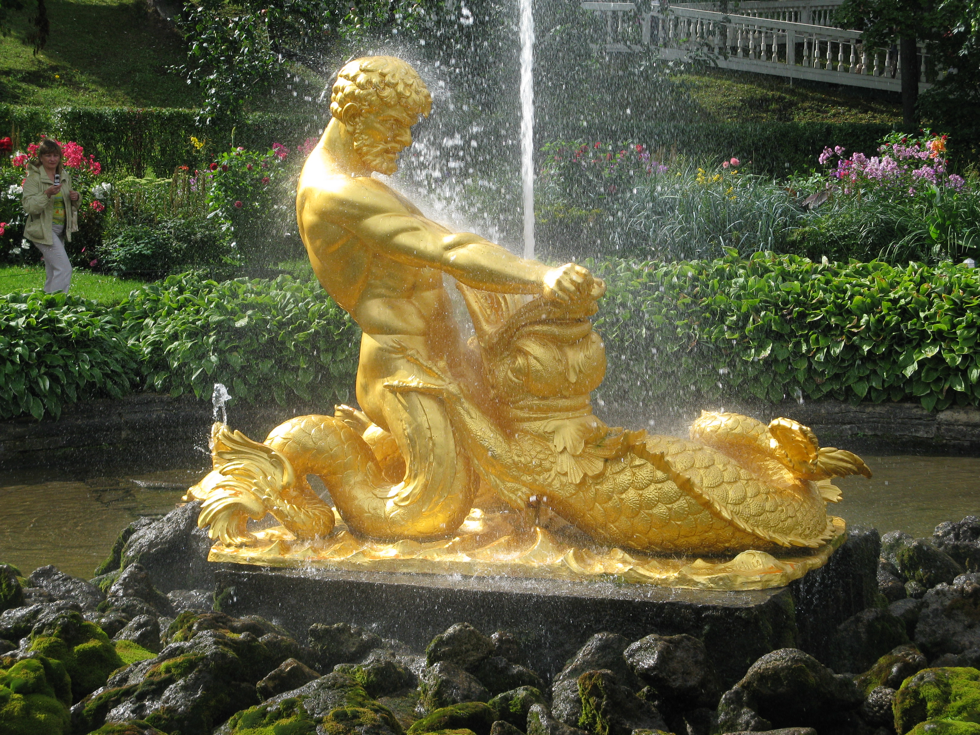 The Orangery Triton Fountain by T. Usov and F. Braunstein 1726. at The Lower Park of Petrhof.